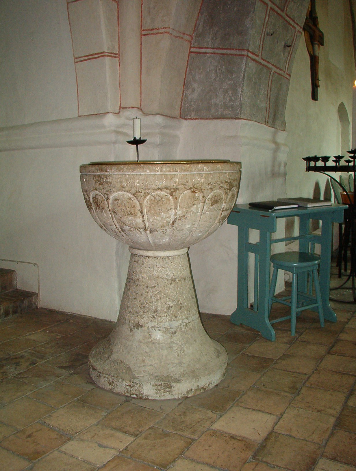 Int: the Baptismal funt